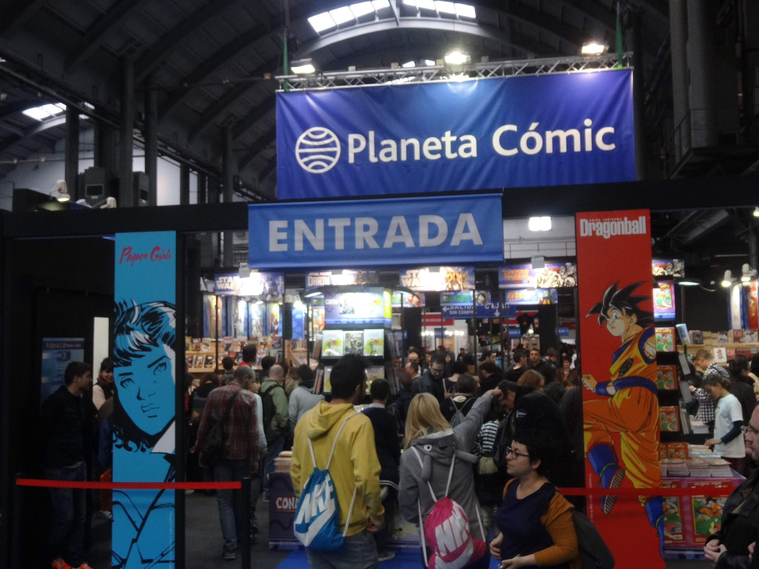 Barcelona International Comic Fair 2017.